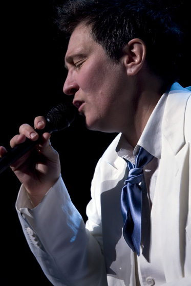 kd lang Hamer Hall, Melbourne, Australia April 2008 See the full gallery here: [1]